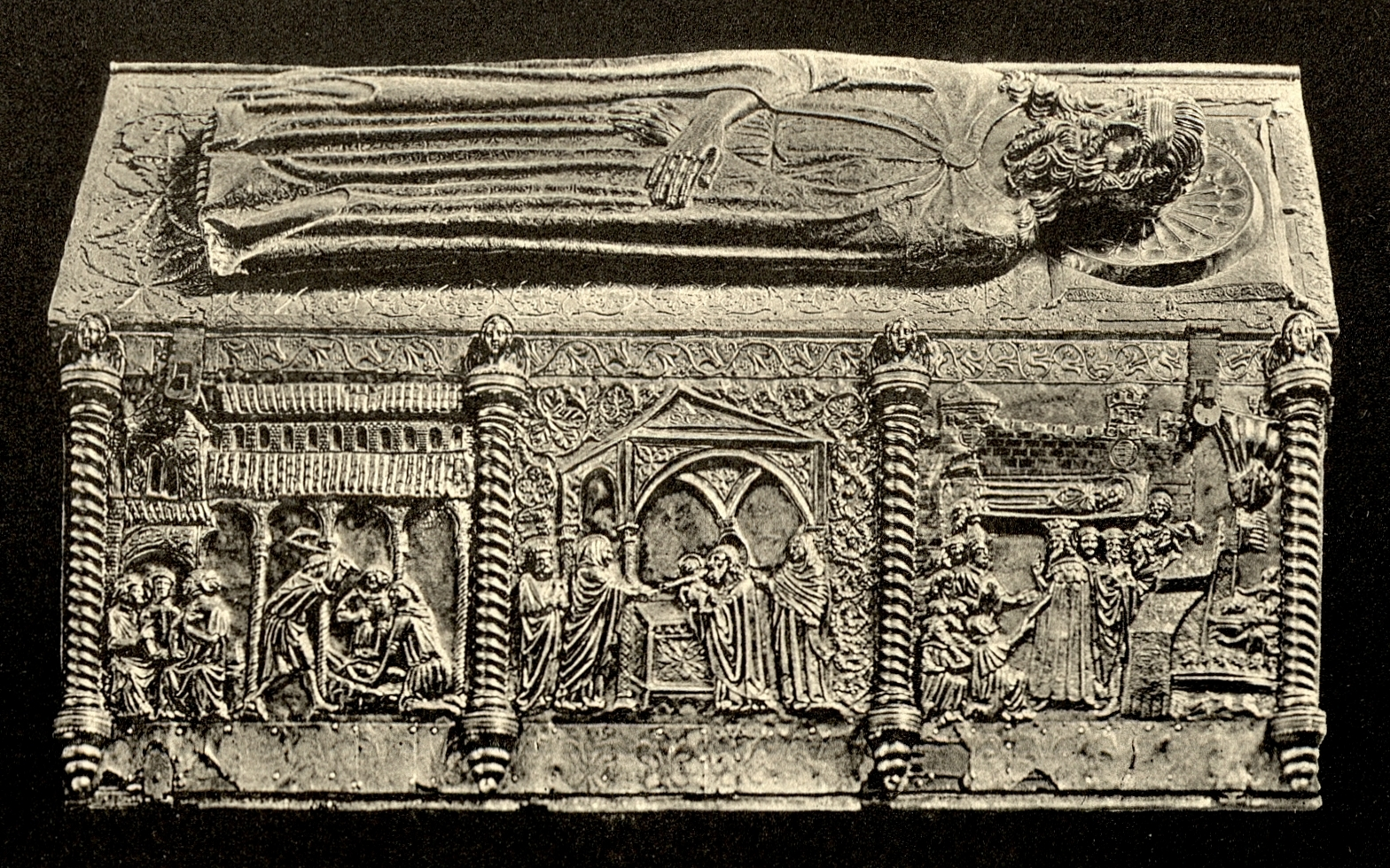 Denkmäler der Kunst in Dalmatien, Herausgegeben von Georg Kowalczyk, mit einer Einleitung von Cornelius Gurlitt. 132 Lichtdrucktafeln nach Naturaufnahmen des Herausgebers Georg Kowalczyk sowie nach Kupfern aus dem Werke von Robert Adam: Ruins of the Palace of the Emperor Diocletian at Spalat(r)o, 1764 Wien, 1910, Verlag von Franz Malota Scanprojekt Bundesdenkmalamt Österreich This scan or this PDF-file was created within the Austrian Wikipedia-project Denkmalpflege Österreich (German only) supported by Wikimedia Germany and Wikimedia Austria as part of the Wikipedia community-project to collect public domain documents from the library of the Heritage Monuments Board of Austria. This document describes or depicts an object which is located in Croatia today. Texts are written in German language. Send requests for uncompressed scans to Hubertl. This work is in the public domain in the United States, and those countries with a copyright term of life of the author plus 100 years or less. This file has been identified as being free of known restrictions under copyright law, including all related and neighboring rights.